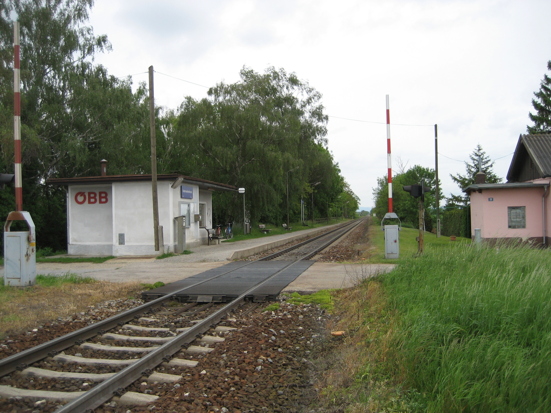 Train station Untersiebenbrunn in Lower Austria